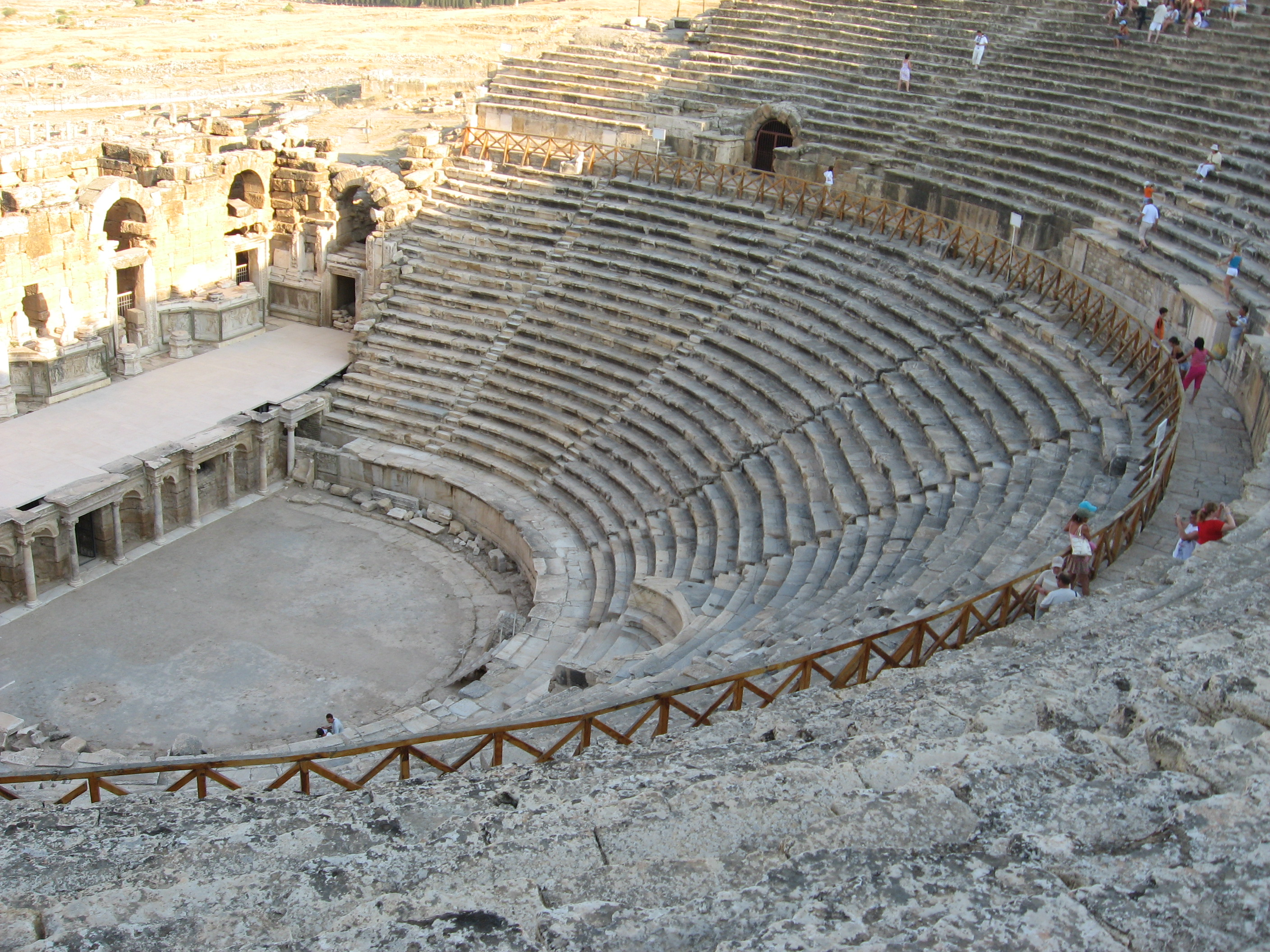 Ancient theatre in Hierapolis, Turkey